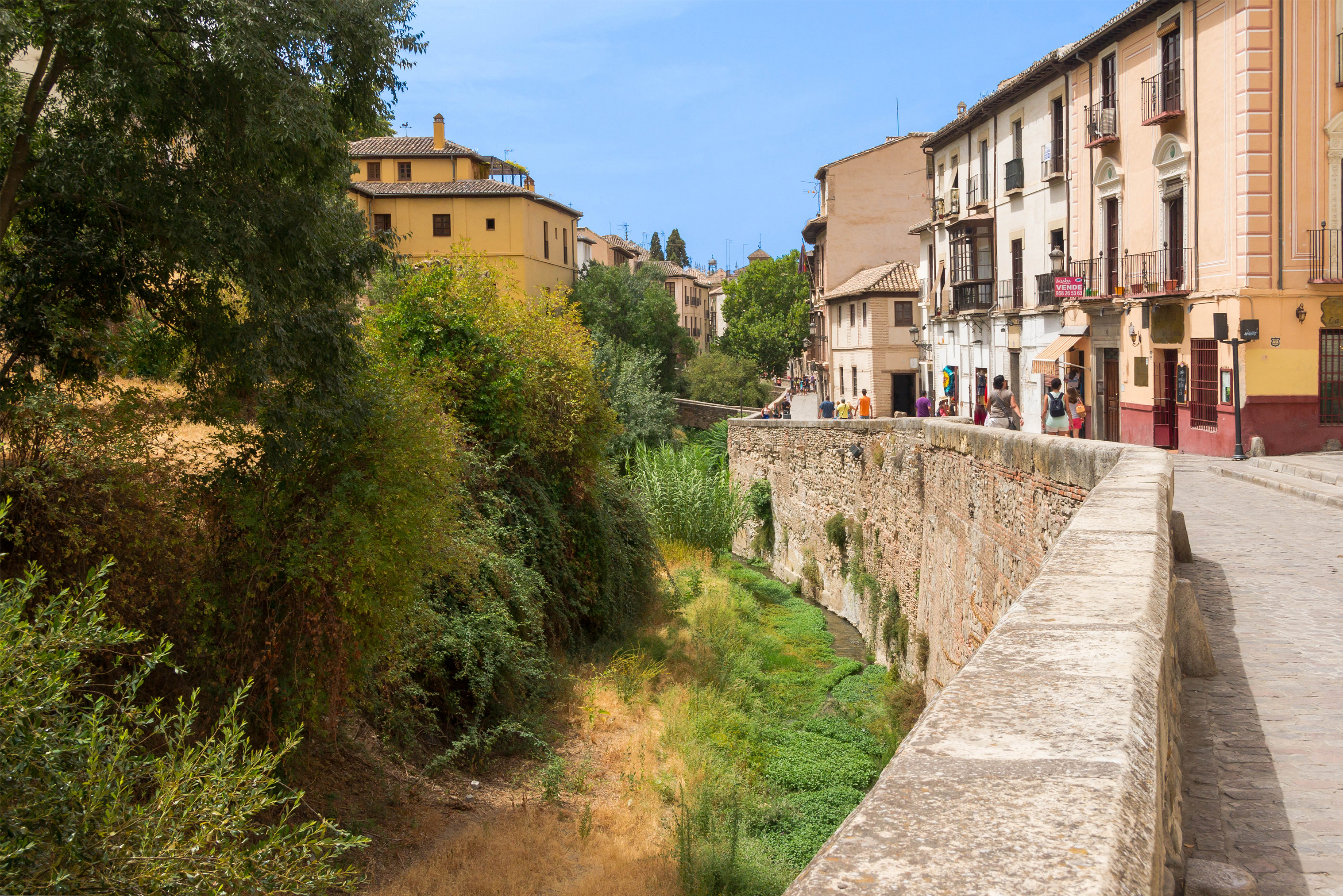 "Carrera del Darro" (Darro street) and Rio Darro, between Albayzin neighborhood and Alhambra hill, Granada, Spain.